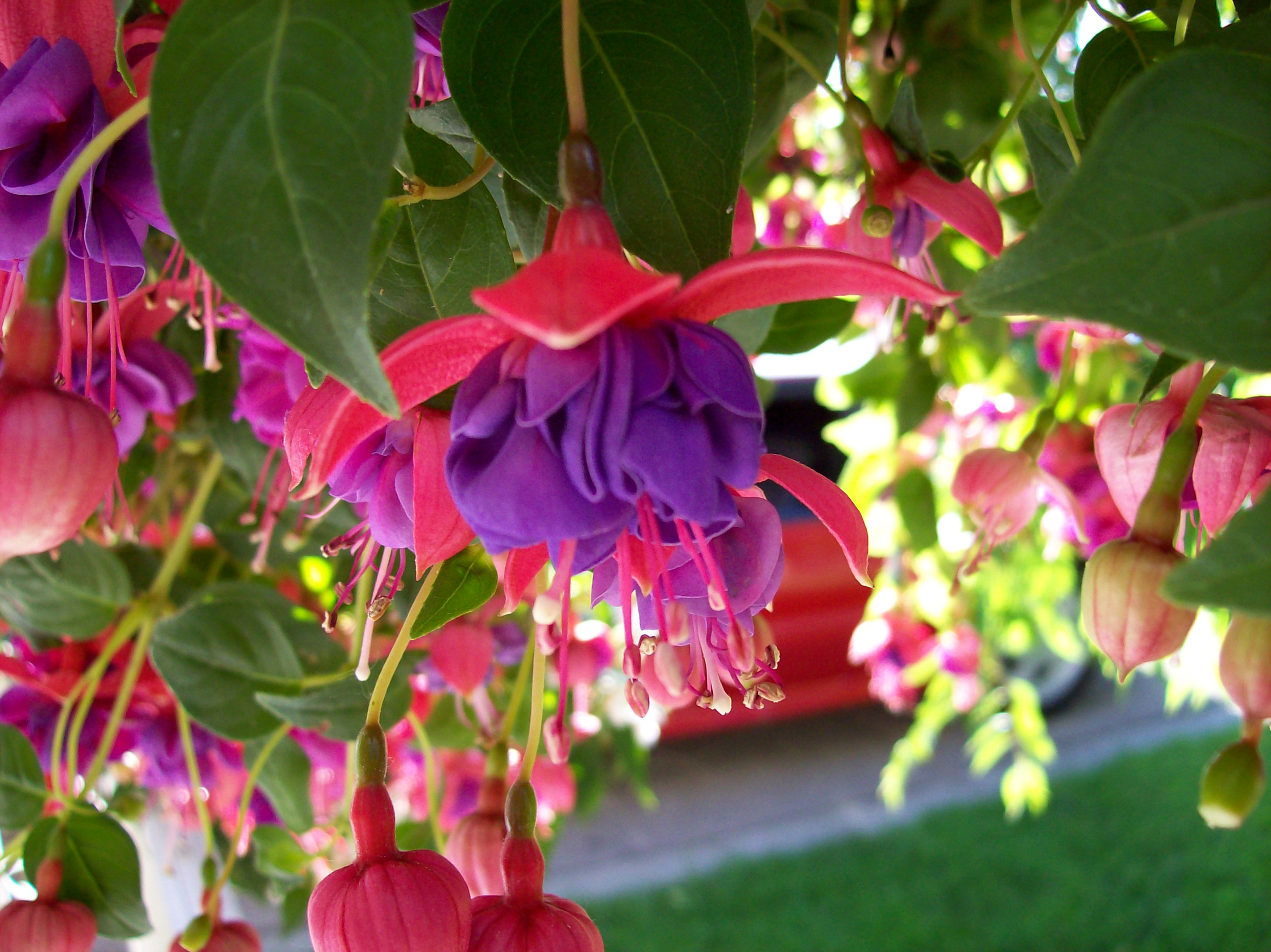 This is a picture of the Blue Eyes Fuchsia (fuchsia hybrida) in full bloom. I have this plant displayed in my garden and it is one of my favorites. The Blue Eyes Fuchsia requires regular watering and partial sunlight to thrive. Feed your plant with good fertilizer once every two weeks for best results. In today's technologically advanced world, it seems that nature is becoming dwarfed by technology and the machines of man, but in this image, technology takes a background to and is almost unnoticeable behind the beauty of nature. I took this picture myself in June, 2007.